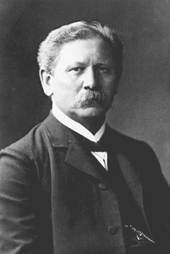 Rudolf Disselhorst, German, Professor of Medicine, University Halle